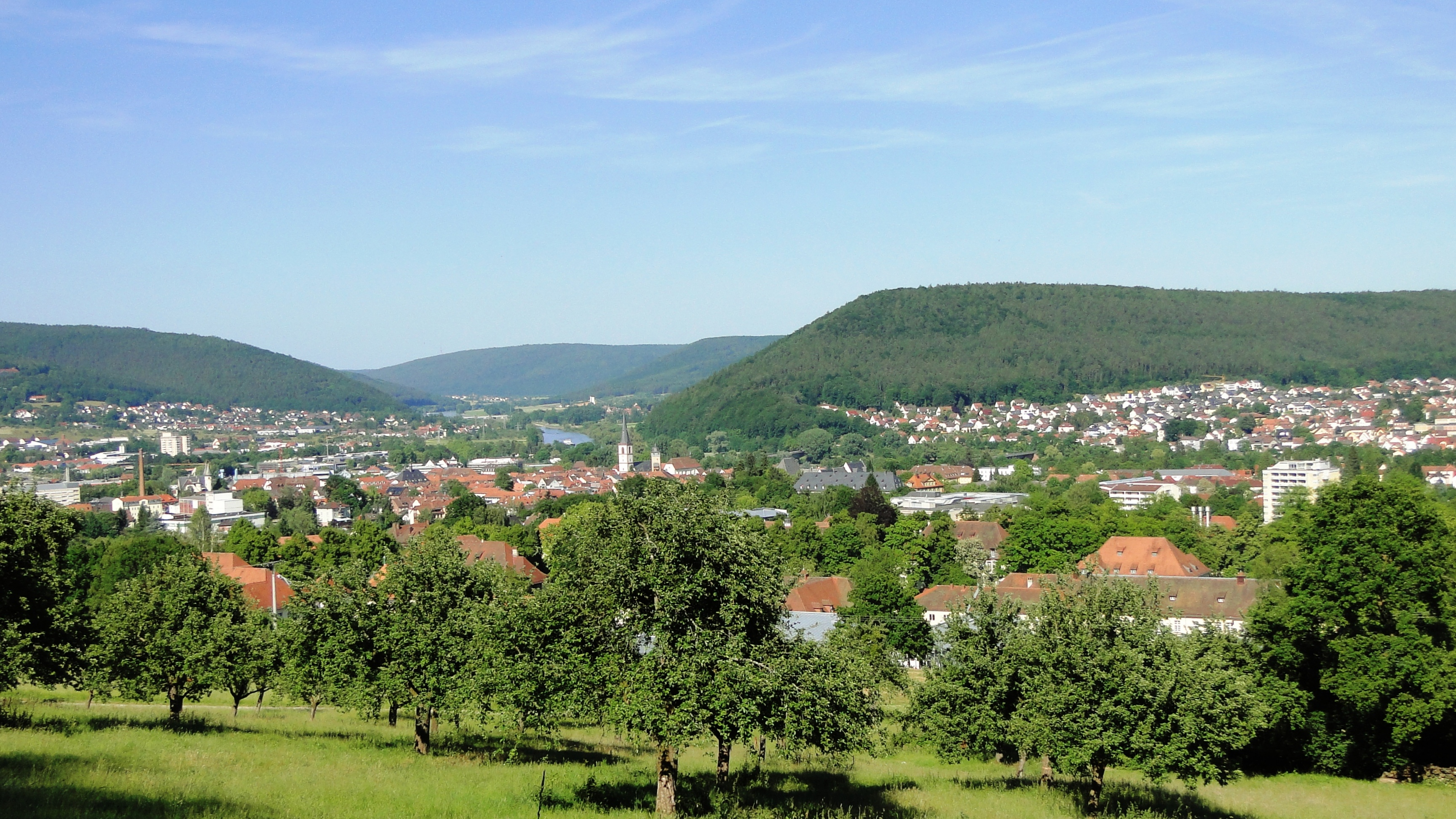 View of Lohr am Main, Germany, from the Lohrer Alm